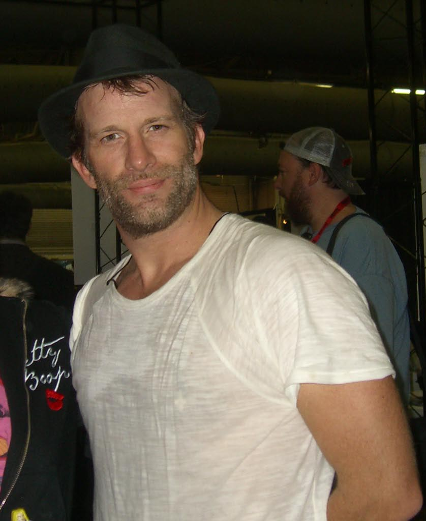 Actor Thomas Jane at the Big Apple Convention in Manhattan. Photographed by Luigi Novi. This photo may only be used if the photographer is properly credited. (See Licensing information below.)